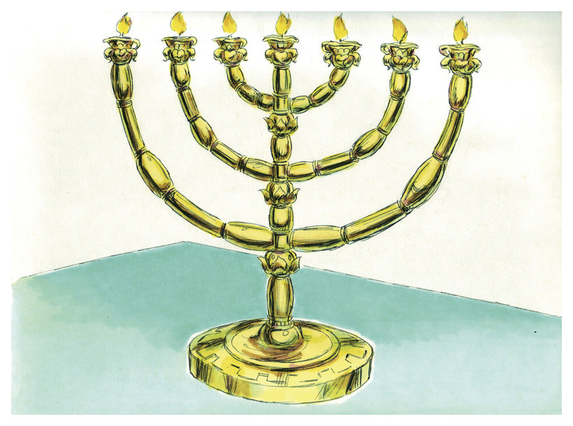 Biblical illustration of Book of Exodus Chapter 26